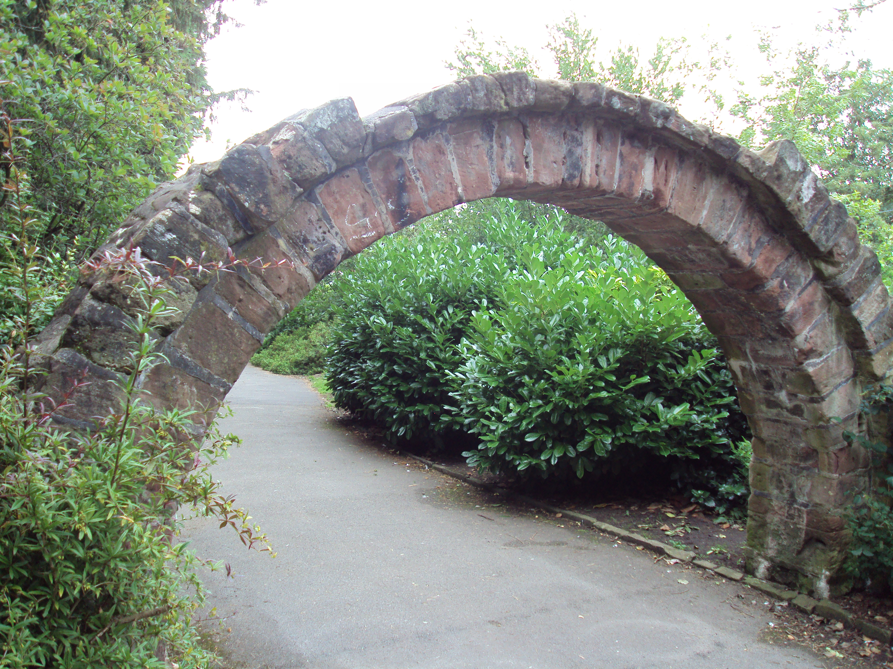 Arch of the former Shipgate, Chester, now in Grosvenor Park